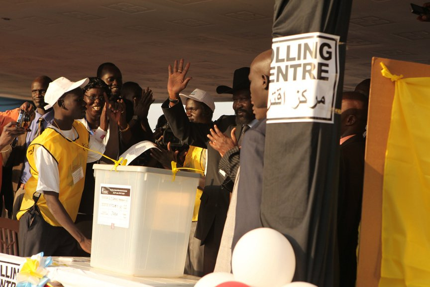 Government of Southern Sudan President Salva Kiir Mayardit greets Barrie Walkley, United States Consul General to Sudan, after voting in the referendum on January 9, 2011. Angela Stephens/USAID.